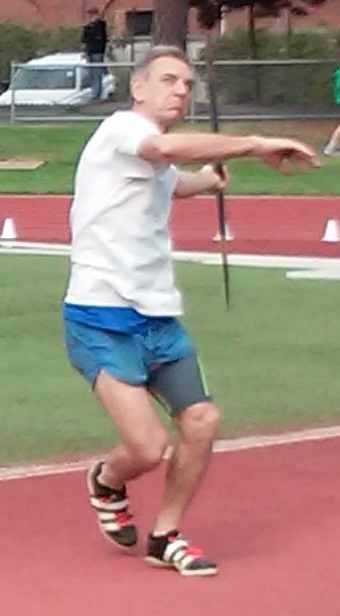 Alan Hawkins (athlete) 4